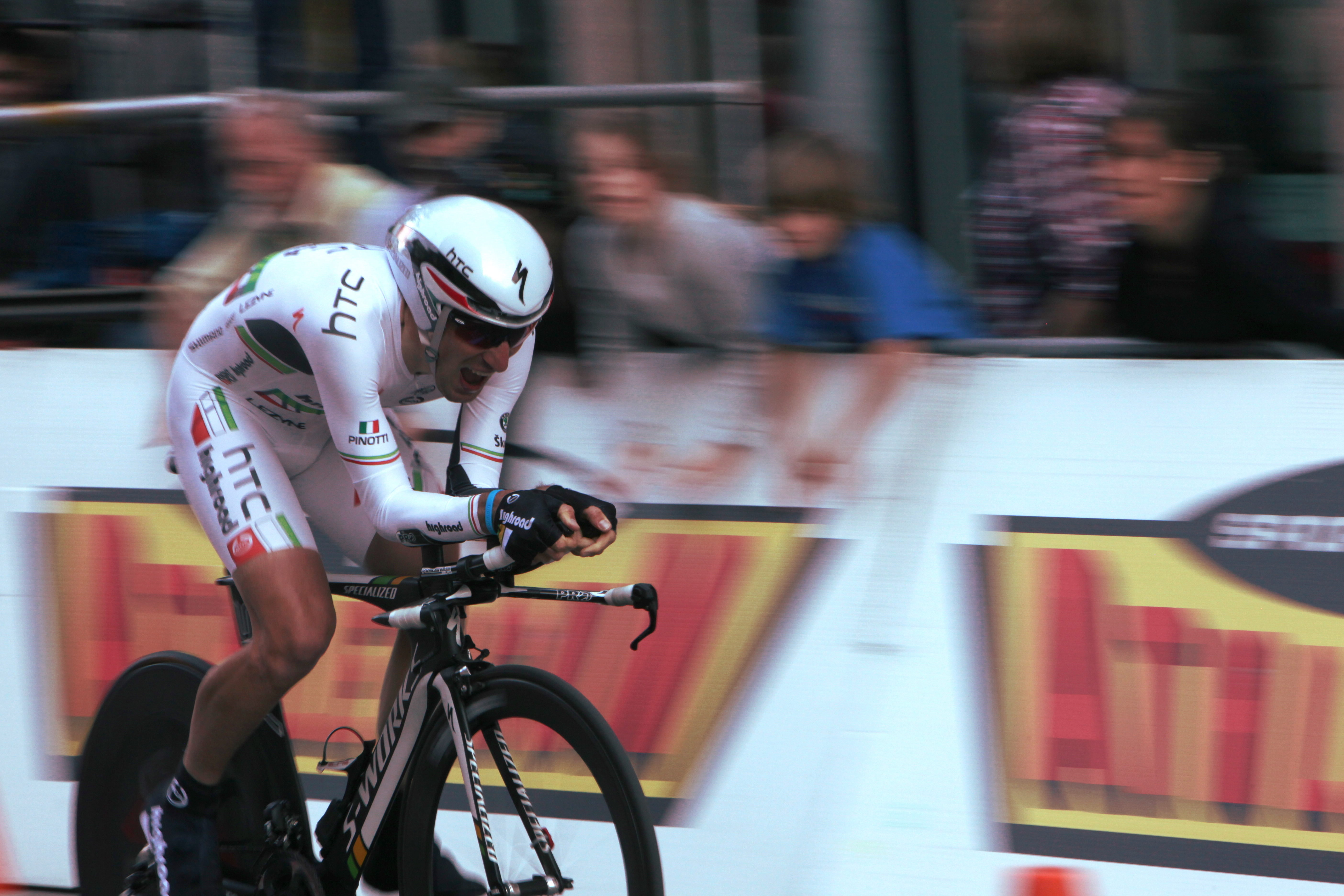 Marco Pinotti at the prologue of the Tour de Romandie 2011